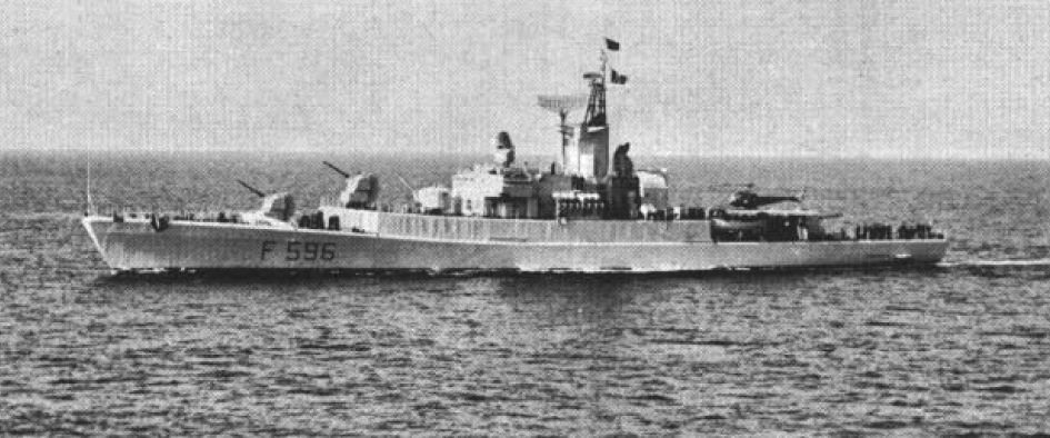 The Italian Bergamini-class frigate Luigi Rizzo (F596) underway, circa 1962. Ontano was Adjutant-class motor minesweeper built at Henry C. Grebe and Co., Inc., Chicago, Illinois (USA). It was completed on 26 October 1954 and directly transferred to Italy where it served until 1993.